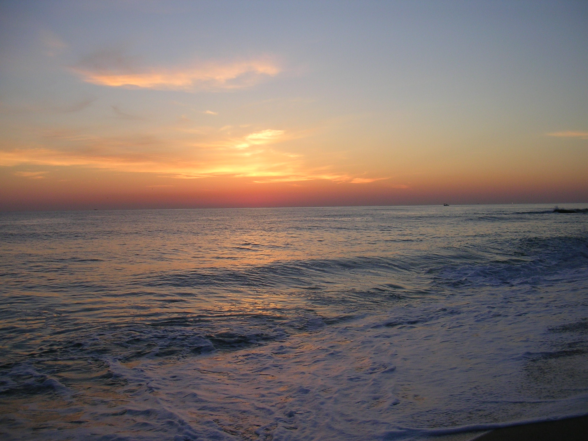 Dawn over the sea in South Korea.